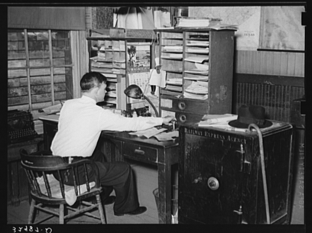 Title: Railway express agency office in station. San Augustine, Texas Creator(s): Lee, Russell, 1903-1986, photographer Date Created/Published: 1939 Apr. Medium: 1 negative : safety ; 3 1/4 x 3 1/4 inches or smaller. Reproduction Number: LC-USF34-032987-D (b&w film neg.) Rights Advisory: No known restrictions. For information, see U.S. Farm Security Administration/Office of War Information Black & White Photographs( Call Number: LC-USF34- 032987-D [P&P] Other Number: H 52 Repository: Library of Congress Prints & Photographs Division Washington, DC 20540 Notes: Title and other information from caption card. LOT 0557 (Location of corresponding print). Transfer; United States. Office of War Information. Overseas Picture Division. Washington Division; 1944. More information about the FSA/OWI Collection is available at Film copy on SIS roll 22, frame 1831.